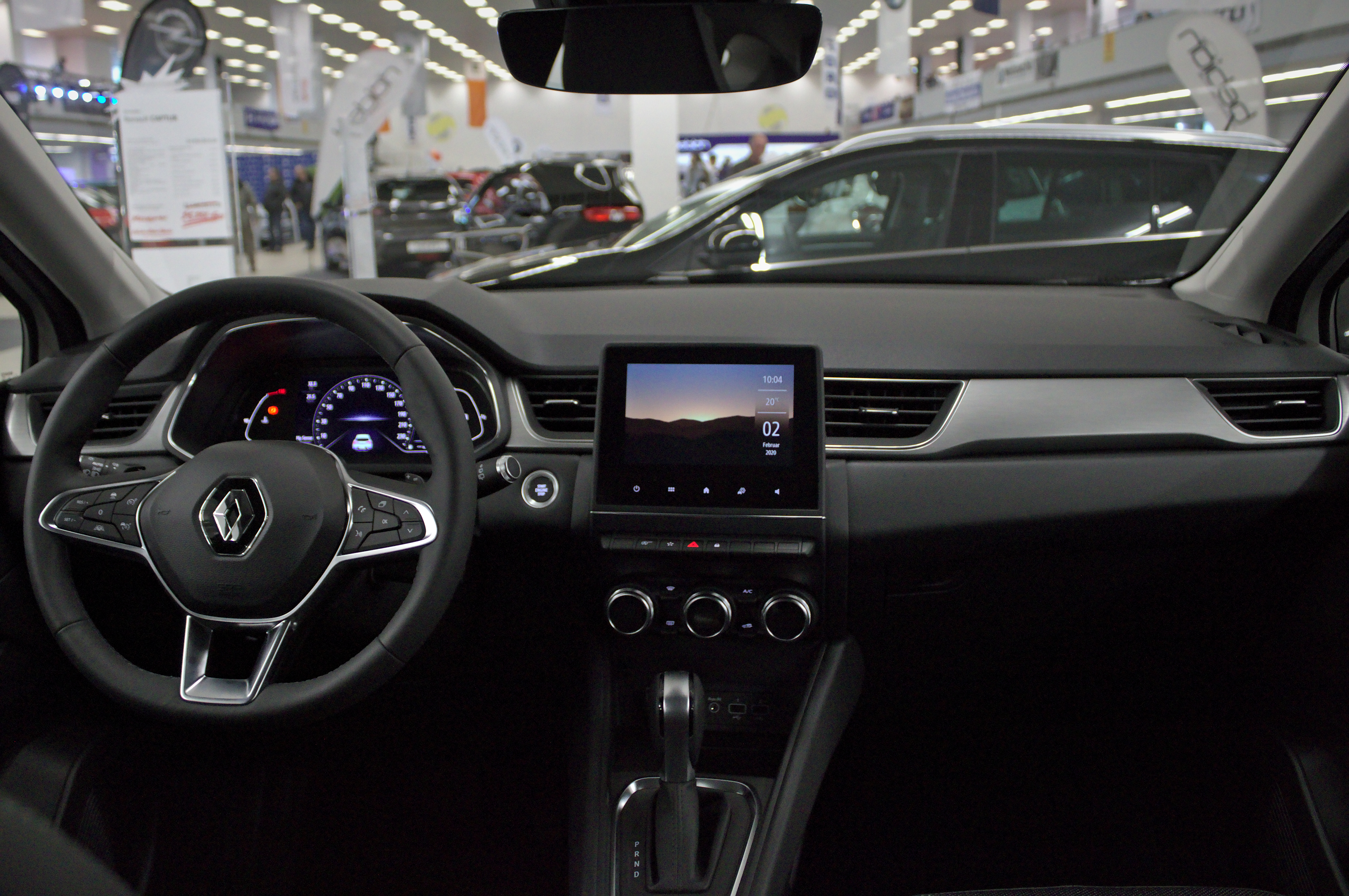 Renault_Captur_II_Sindelfingen_2020